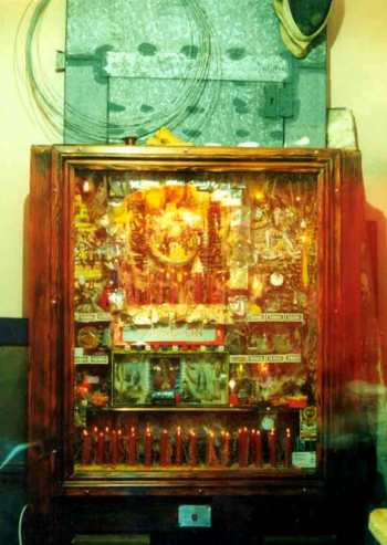 Basilica of the Tattooist.